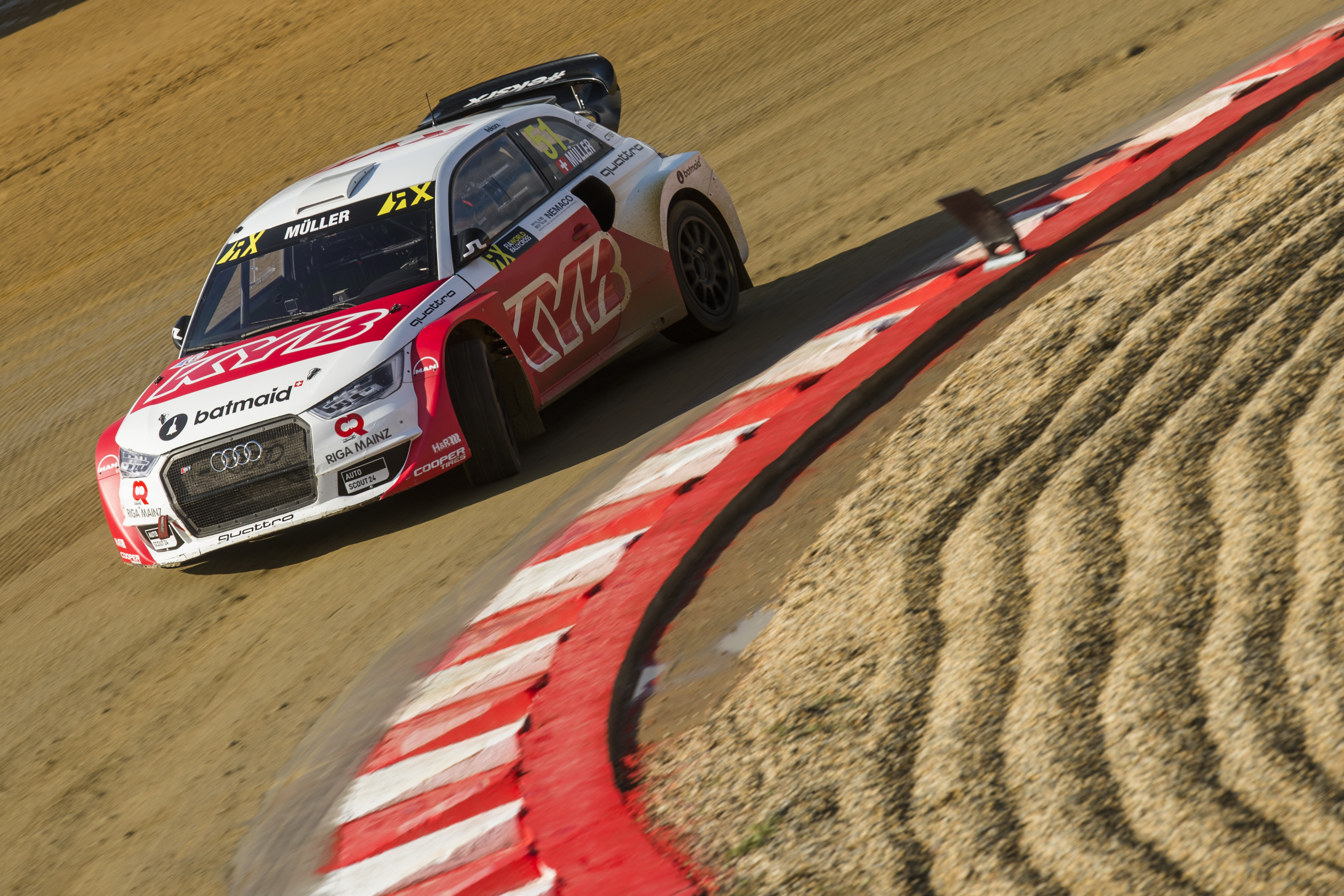 2017 FIA World Rallycross Championship // Round 09, Lohéac // Credit: EKS/Jaanus Ree